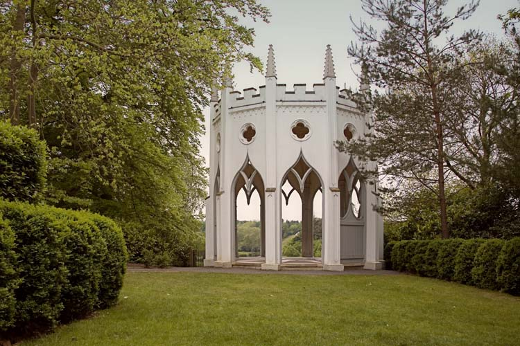 Author: Antony McCallum